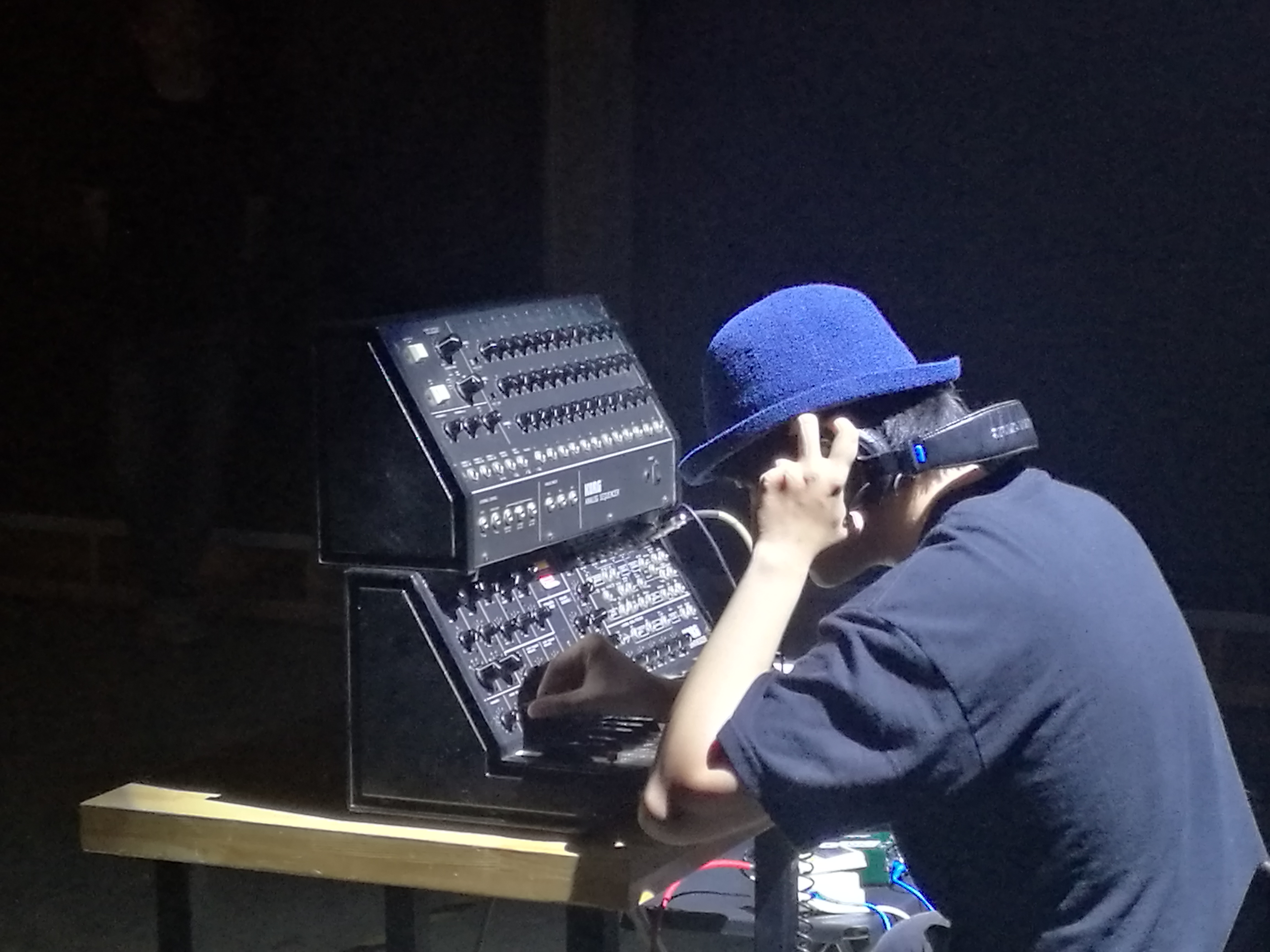 Synth played on live